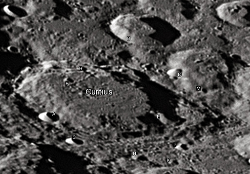 Curtius lunar crater as seen from Earth with satellite craters labeled